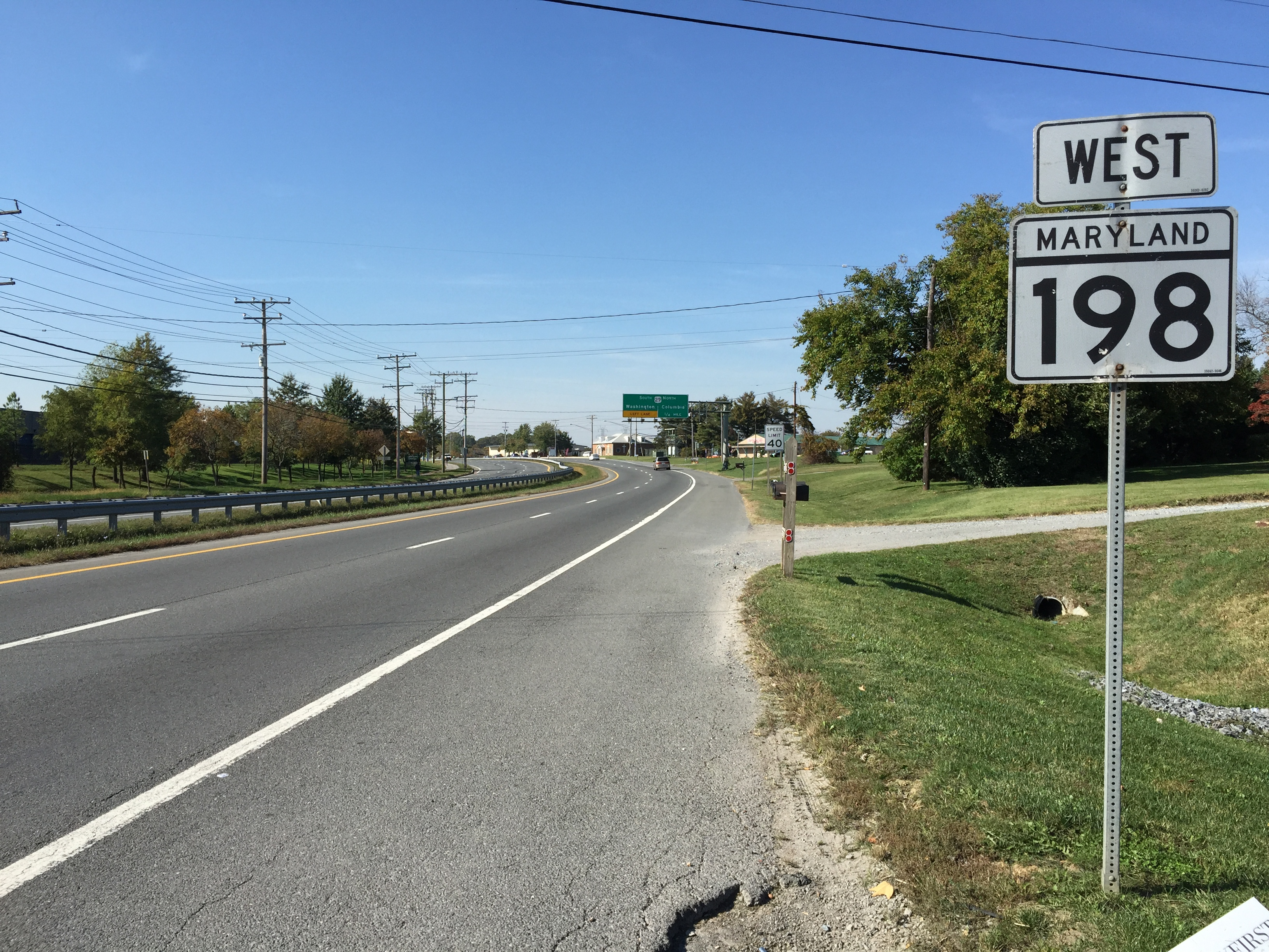 View west along Maryland State Route 198 (Sandy Spring Road) at Dino Drive in Burtonsville, Montgomery County, Maryland